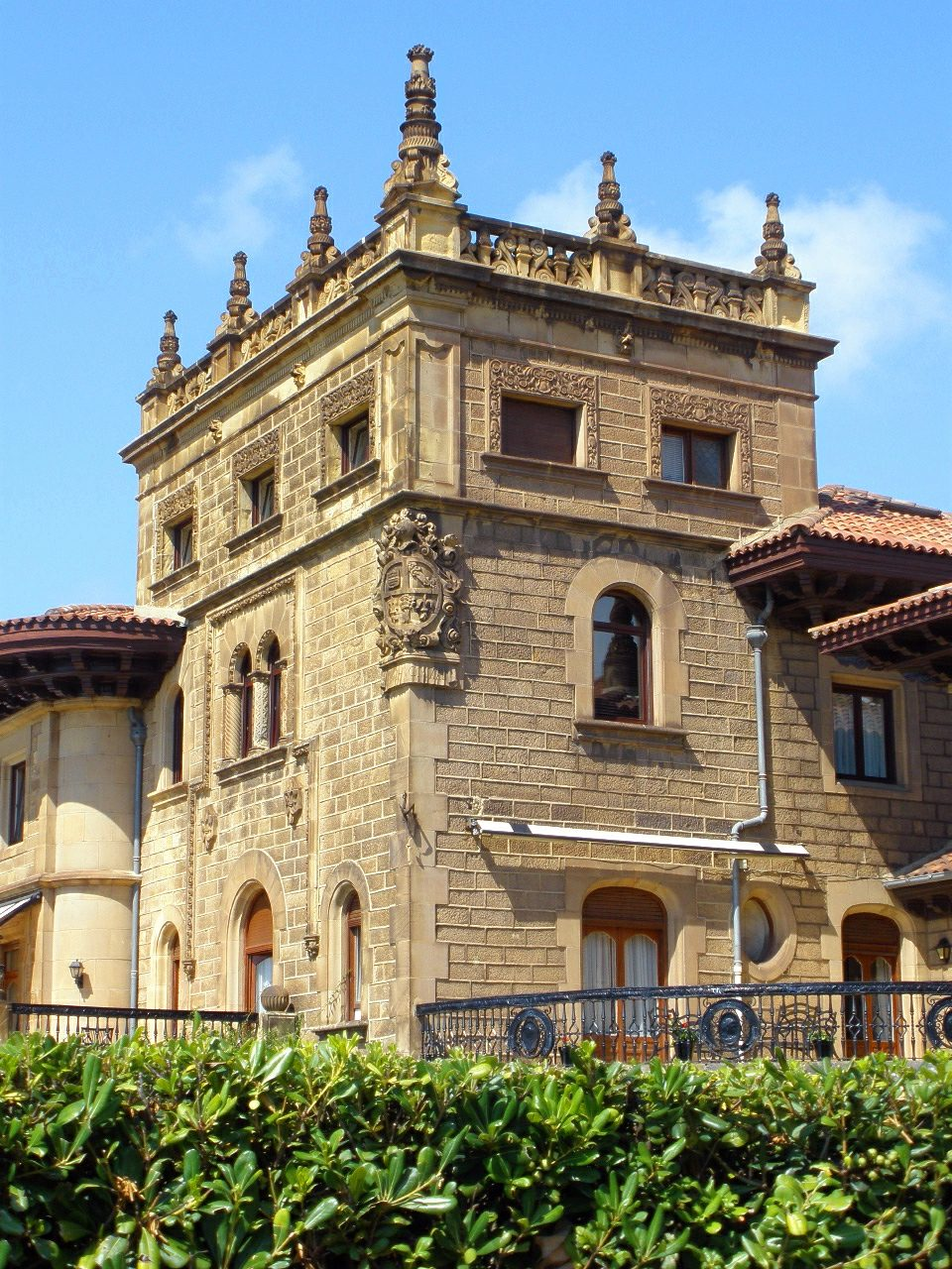 Palacio Lezama-Leguizamón, en Neguri, Guecho (Vizcaya)